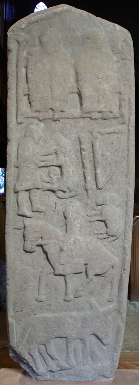 Brechin Cathedral, Brechin, Angus, Scotland - Aldbar Stone